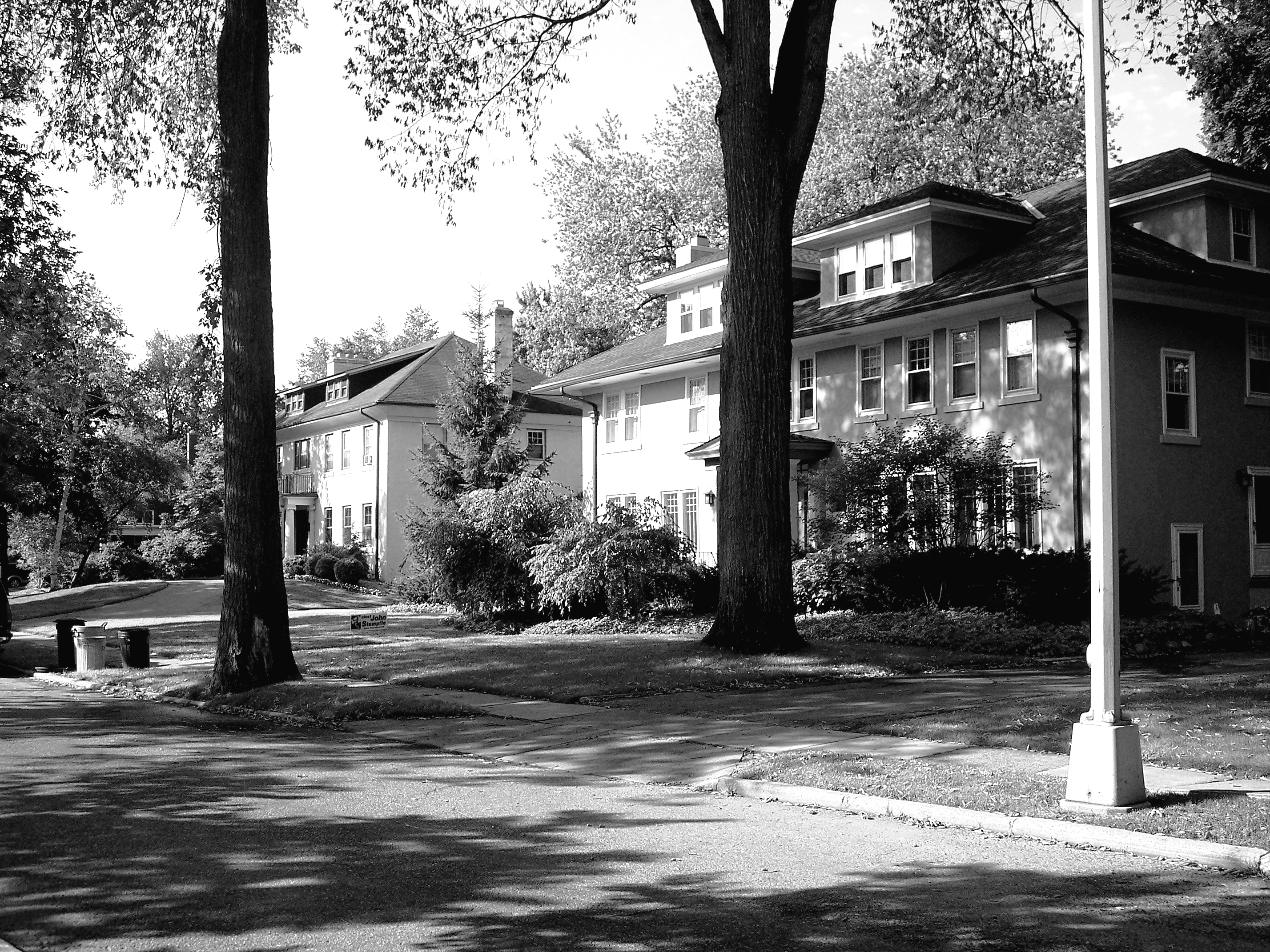 University Place in Grosse Pointe, MI